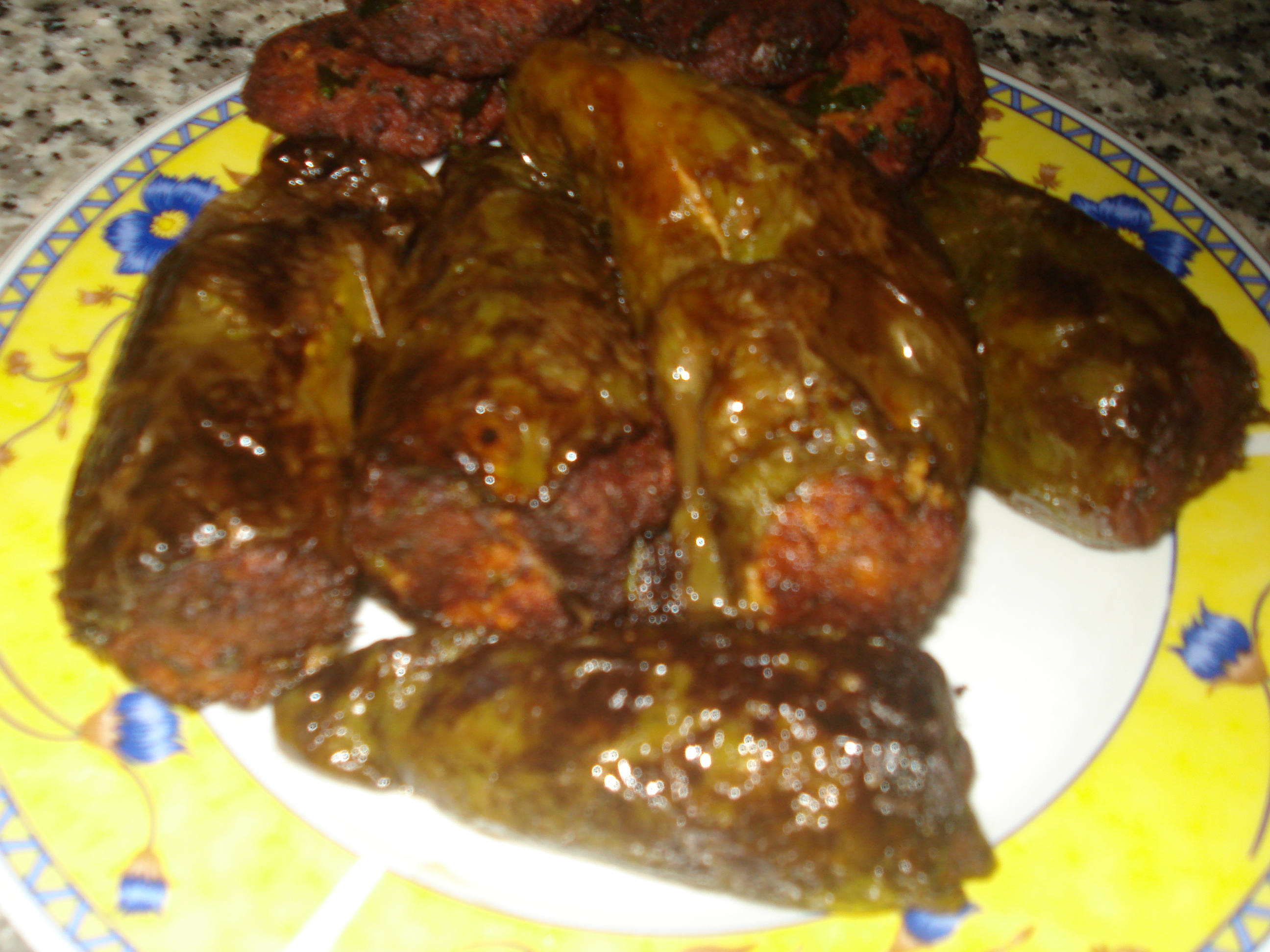 This is an image of food from Tunisia